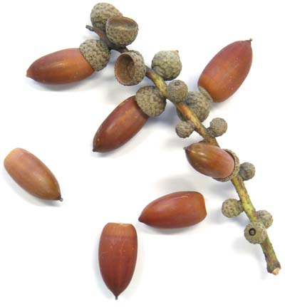 An oak twig with acorns